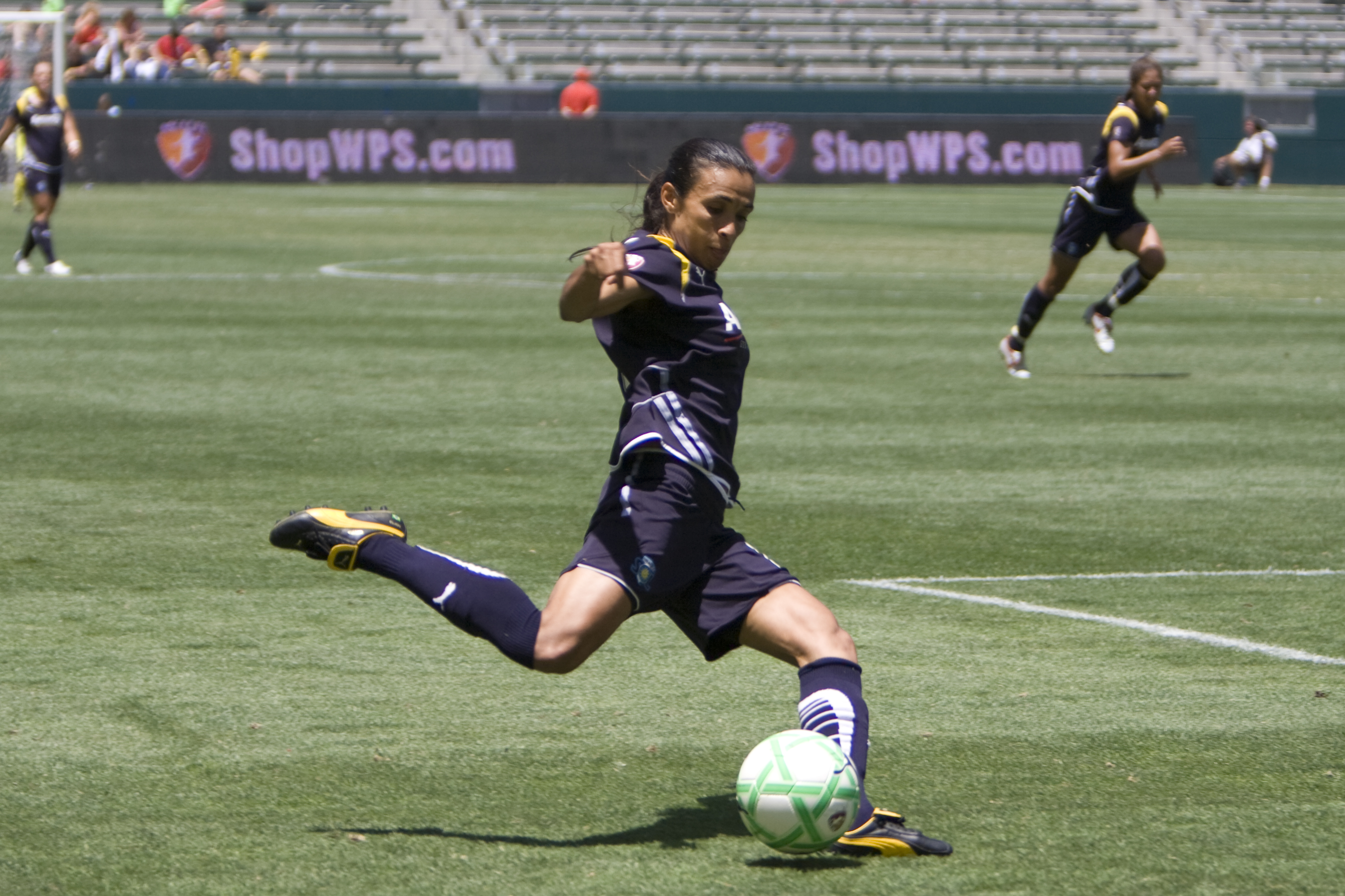 Marta of Los Angeles Sol playing against St. Louis Athletica